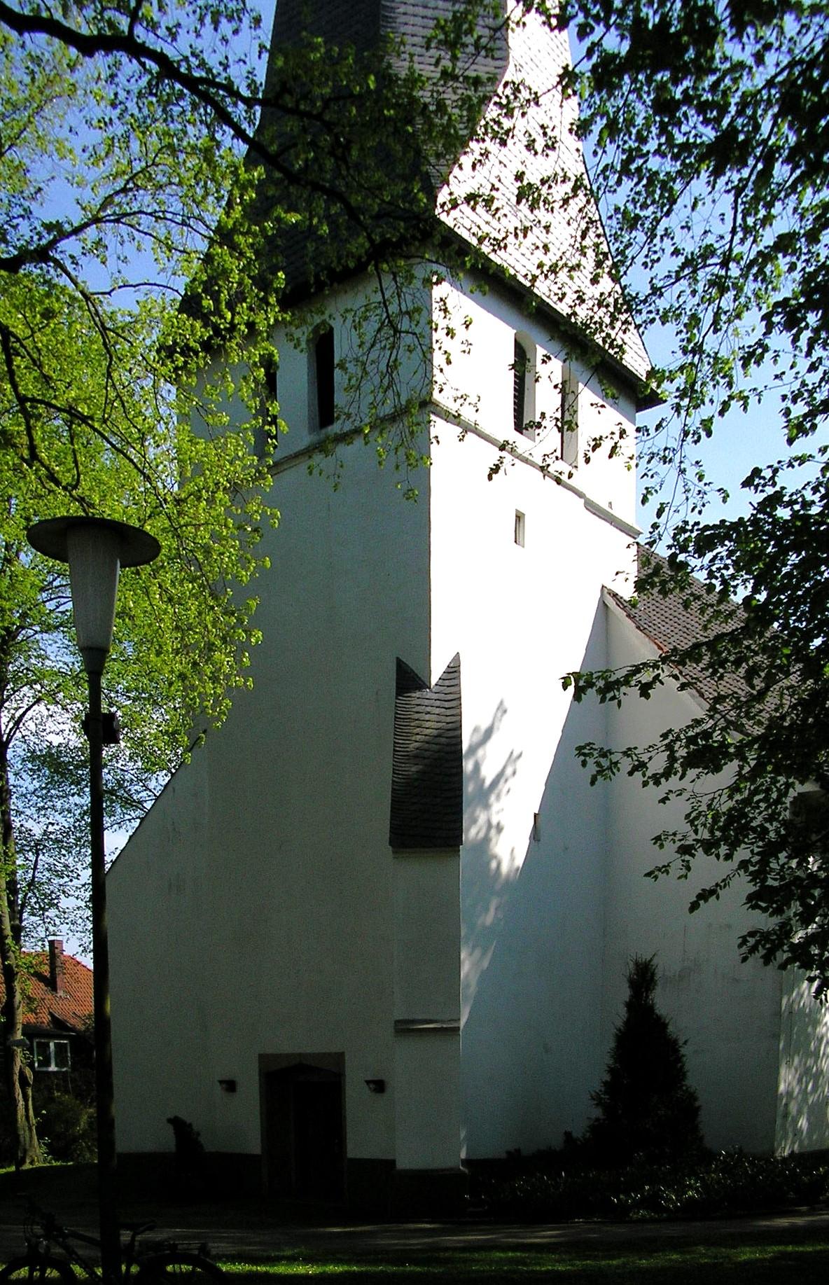 Church in Löhne, District of Herford, North Rhine-Westphalia, Germany.